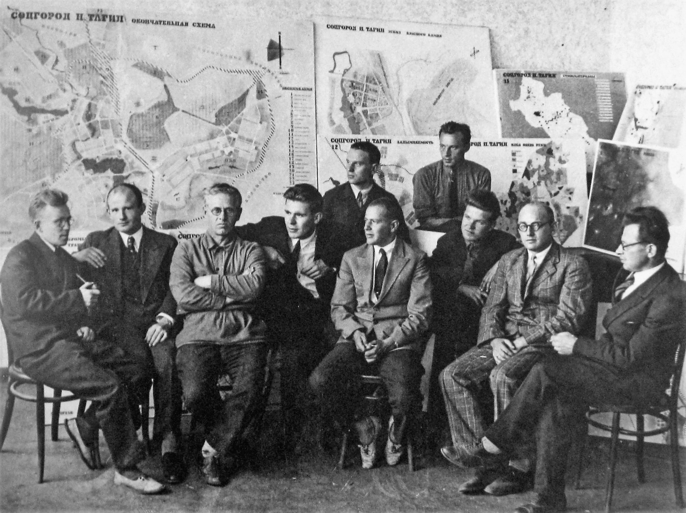 Ernst May and this team in the USSR